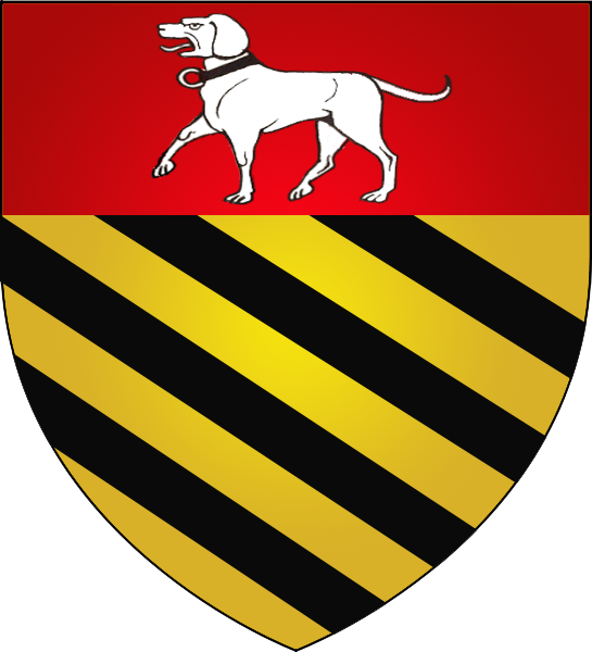 Coat of arms of the municipality of Eschweiler, Luxembourg